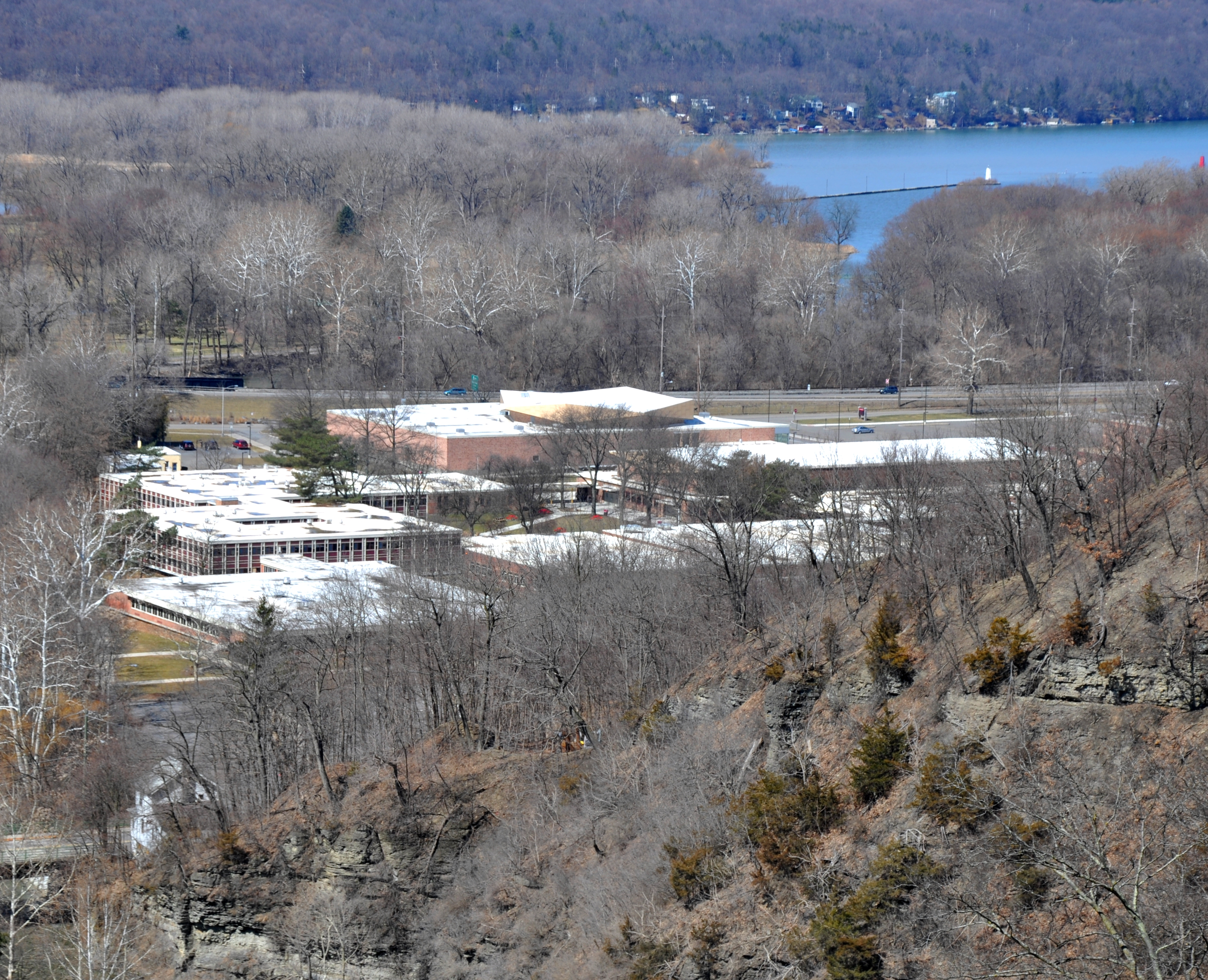 This is an image of Ithaca City School District.